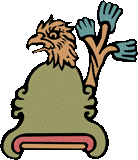 quahuacan